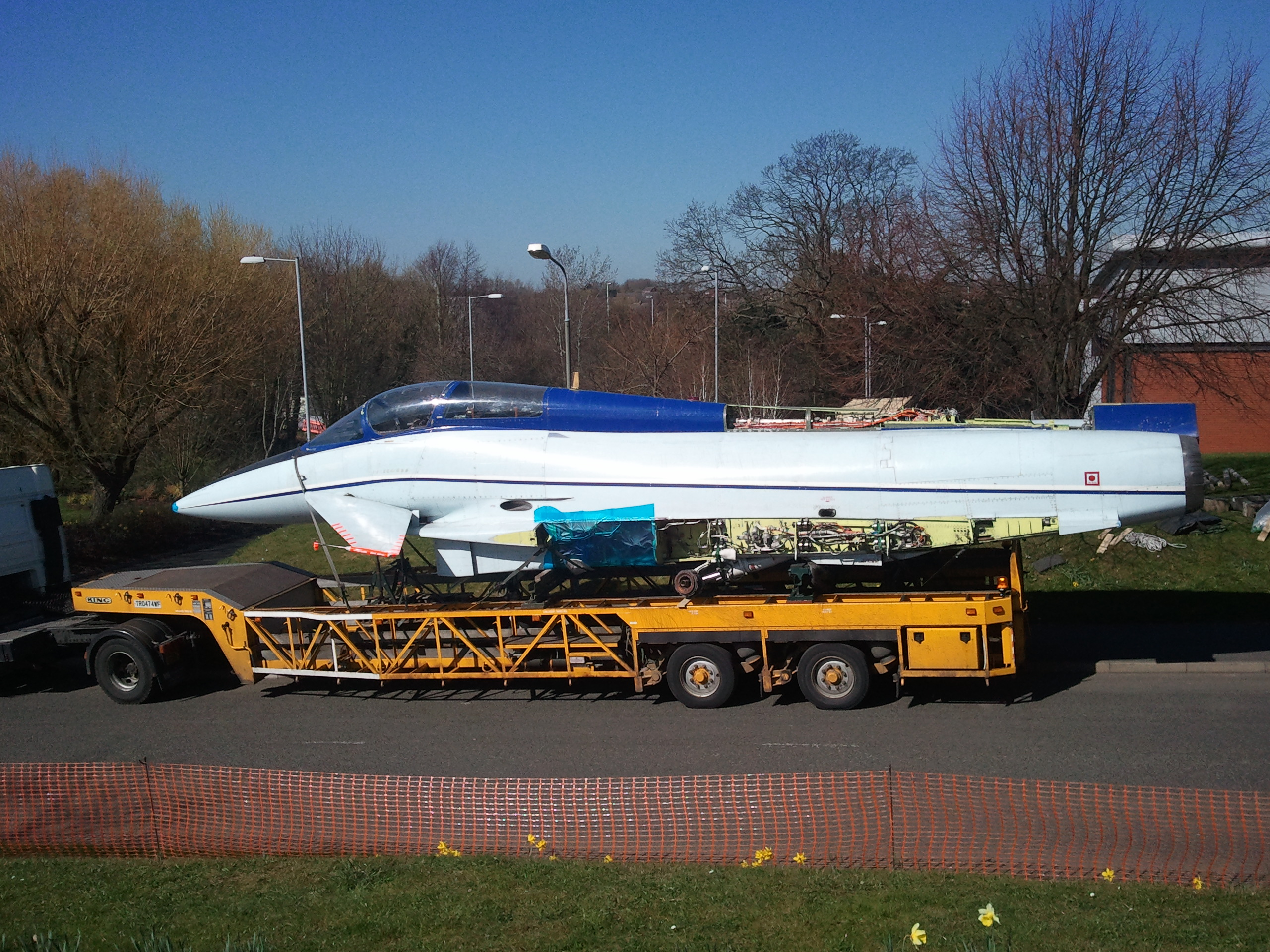 EAP Leaving Loughborough